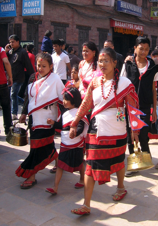 Girls wearing the traditional haku patasi, a black garment which is like a wrap-around skirt, in Kathmandu.